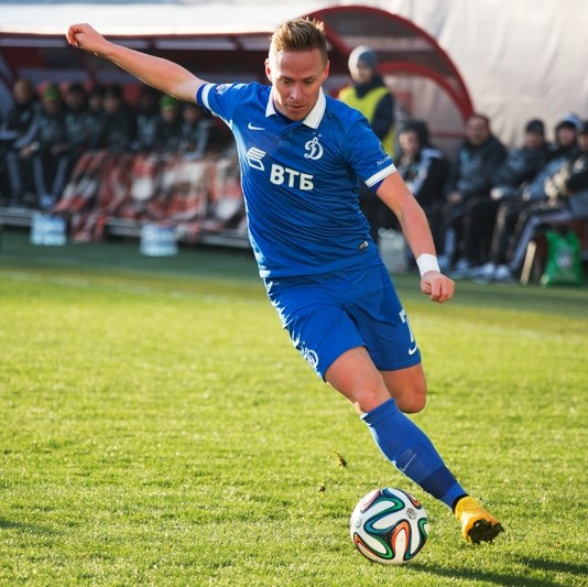 Balázs Dzsudzsák